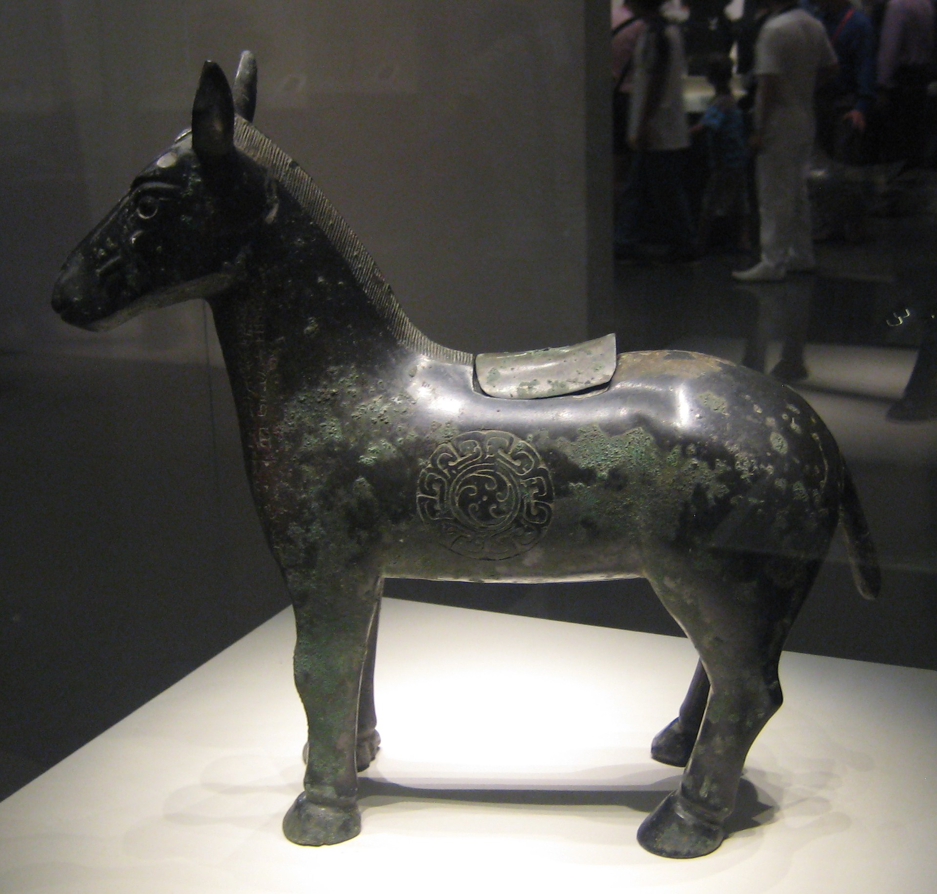 Bronze wine vessel in the shape of a foal from the middle Western Zhou Period. Unearthed at Licun, Meixian, Shaanxi Province, 1955.